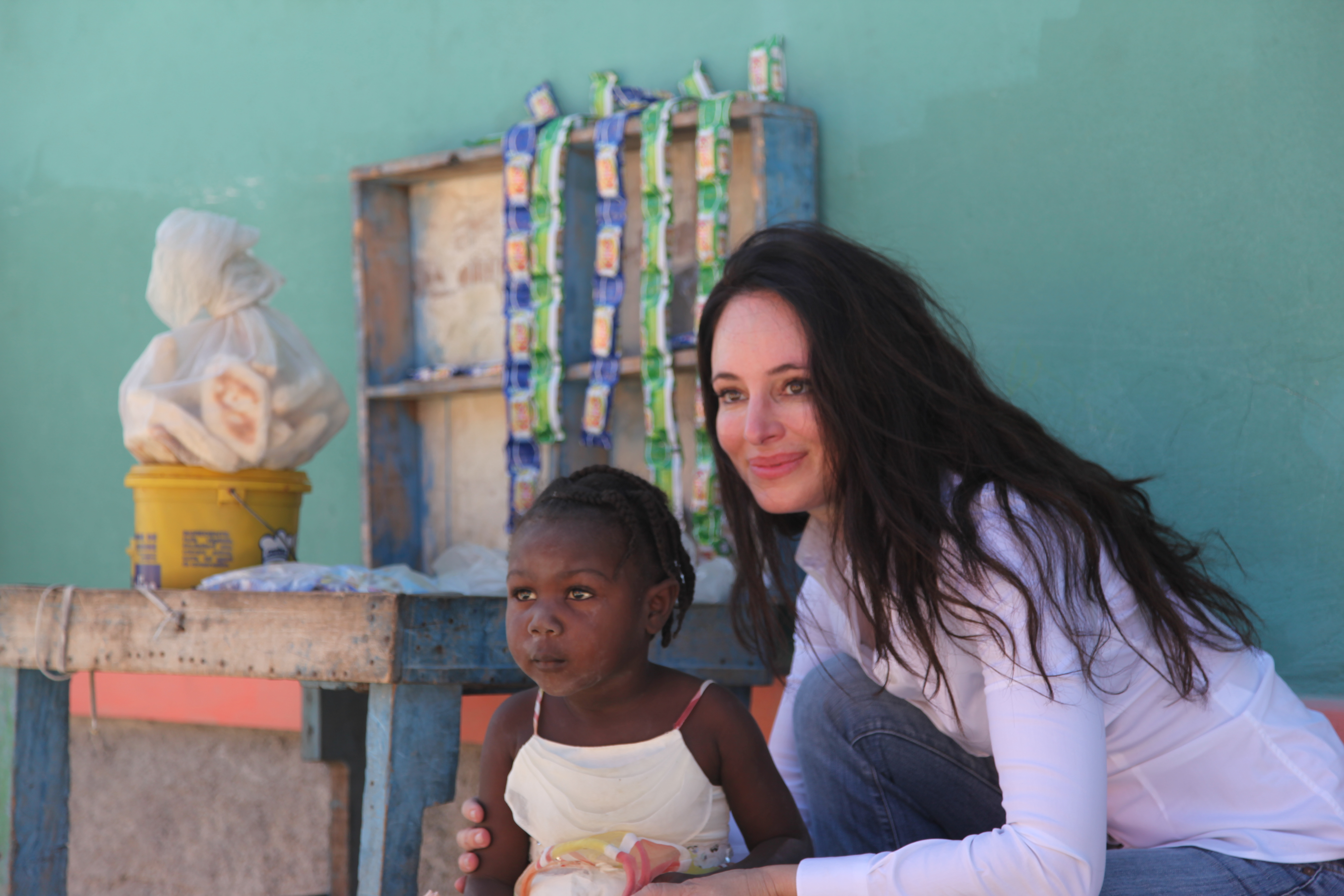 American actress Madeleine Stowe in Haiti